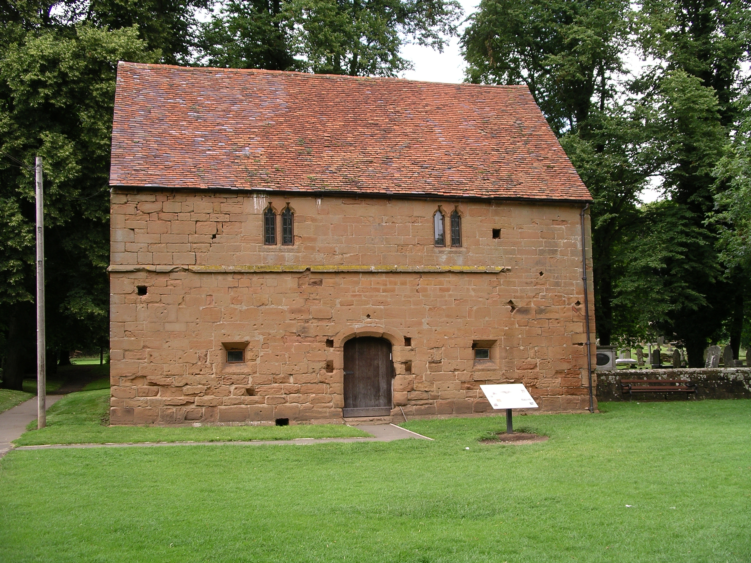 View from the south of a building of the former St Mary's Abbey, Kenilworth, Warwickshire. It is called the "Abbey Barn" but its true purpose is unknown.